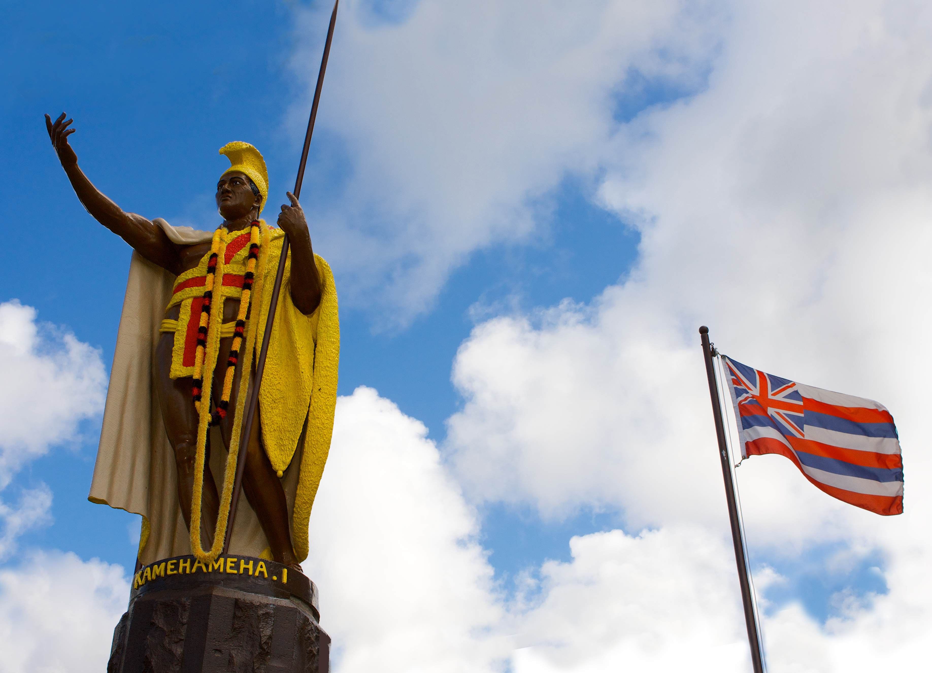 Statue of Kamehamehain in Kapaʻau